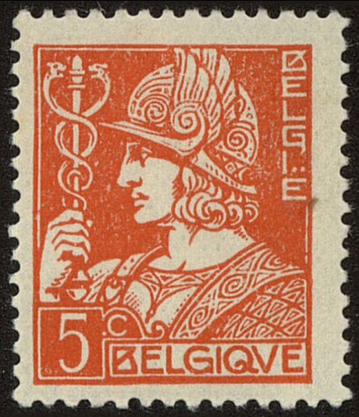 Postage stamp of Belgium, 1932, 5 centimes, Mercury head, Michel#327, Scott#246.